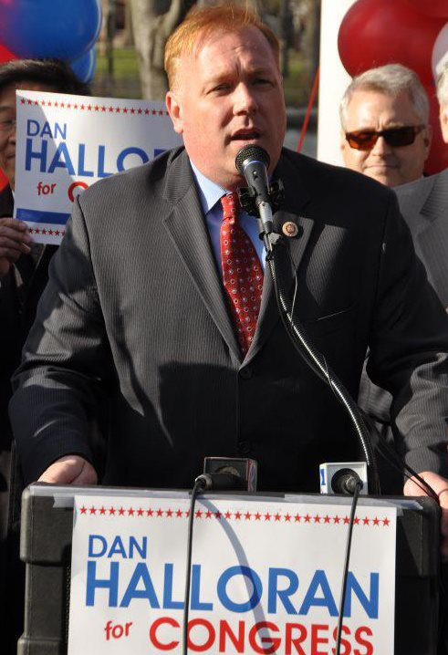 NYC Council member Dan Halloran is the Republican, Conservative, Libertarian candidate in the NY-6 US House race of 2012.